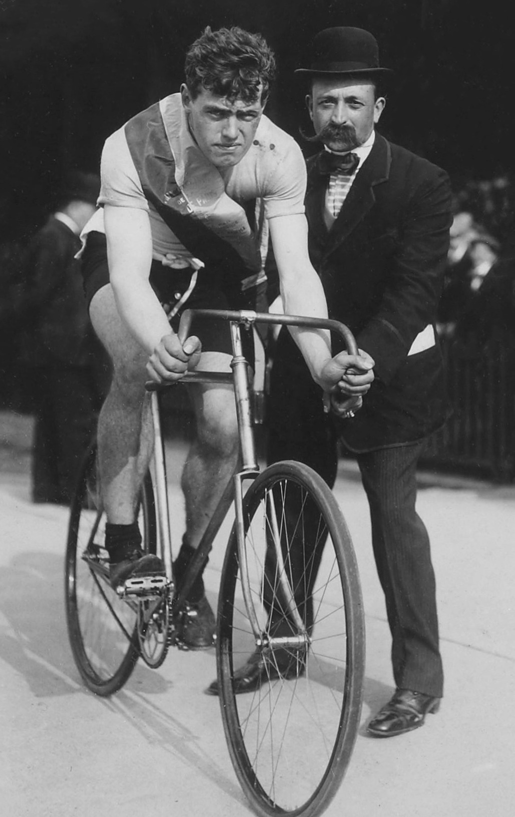 1909 Grand Prix de Paris (amateurs). [Collection Jules Beau. Photographie sportive] : T. 35. Années 1908, 1909 et 1910 / Jules Beau